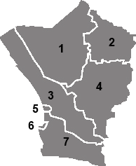 map of the constituencies in Erongo region in Namibia